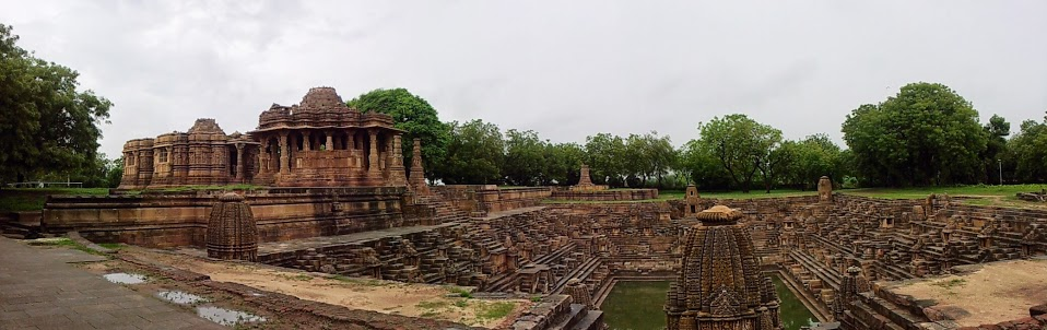 Sun temple, Surya kind with adjoining other temples & loose sculptures